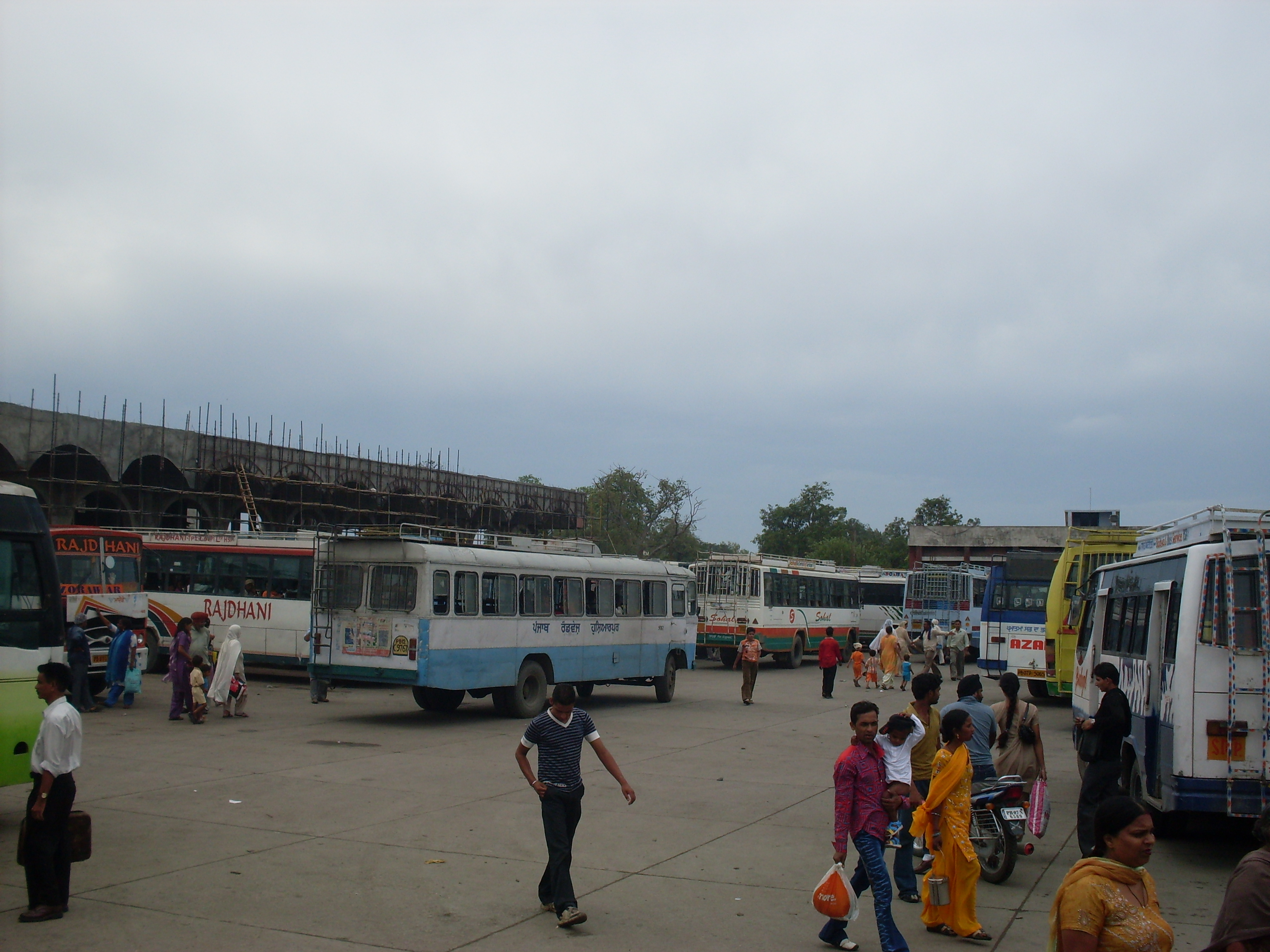 Hoshiarpur bus stand. It is an important stop for buses running to and from Maa Chintpurni Temple